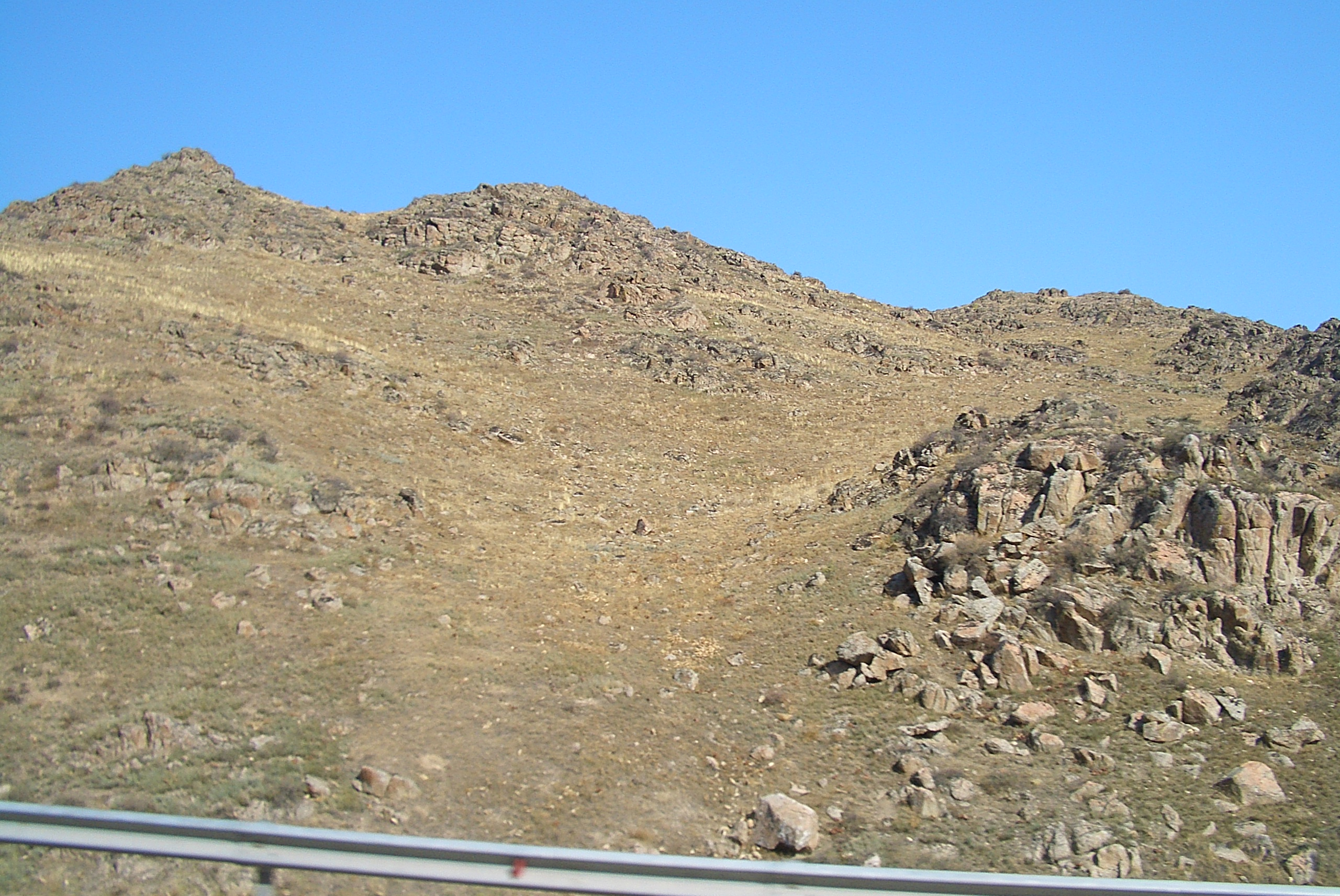 In the hills between the Chu Valley and the Zhetysu, on the Bishkek - Almaty highway.